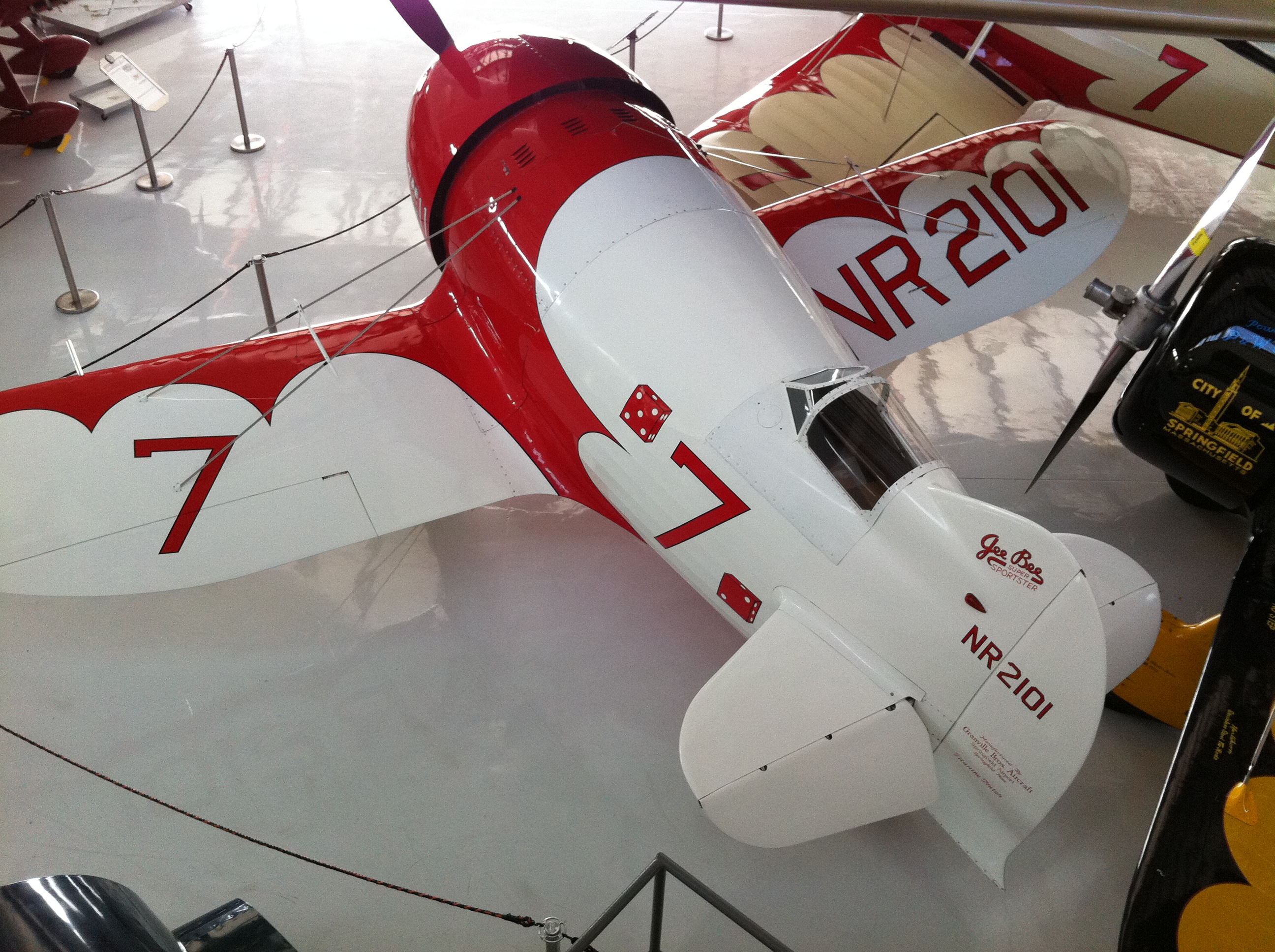 GeeBee R2 Super Sportster at Fantasy of Flight in Polk City, Florida.